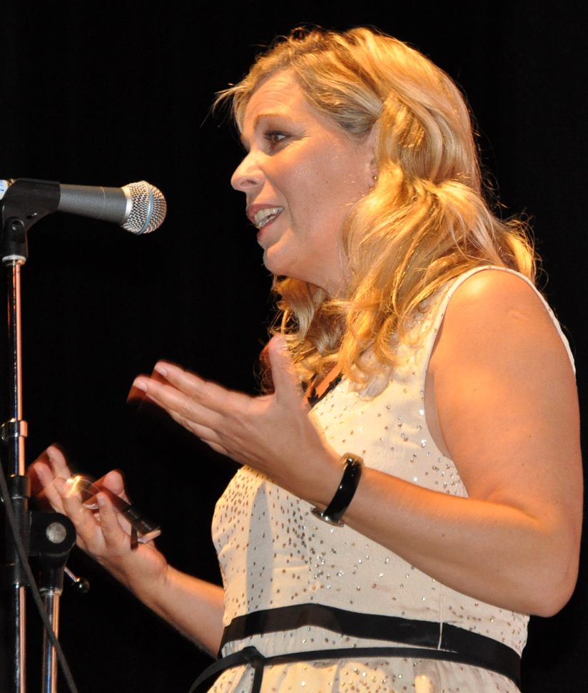 Lone Scherfig, director of An Education, introduces her film